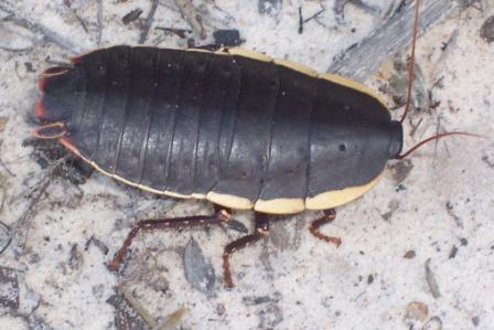 giant Cockroach_8_cm_long_Ku-ring-gai_Chase_National_Park, near the Basin Track, between carpark and Aboriginal petroglyphs, likely to be Polyzosteria limbata